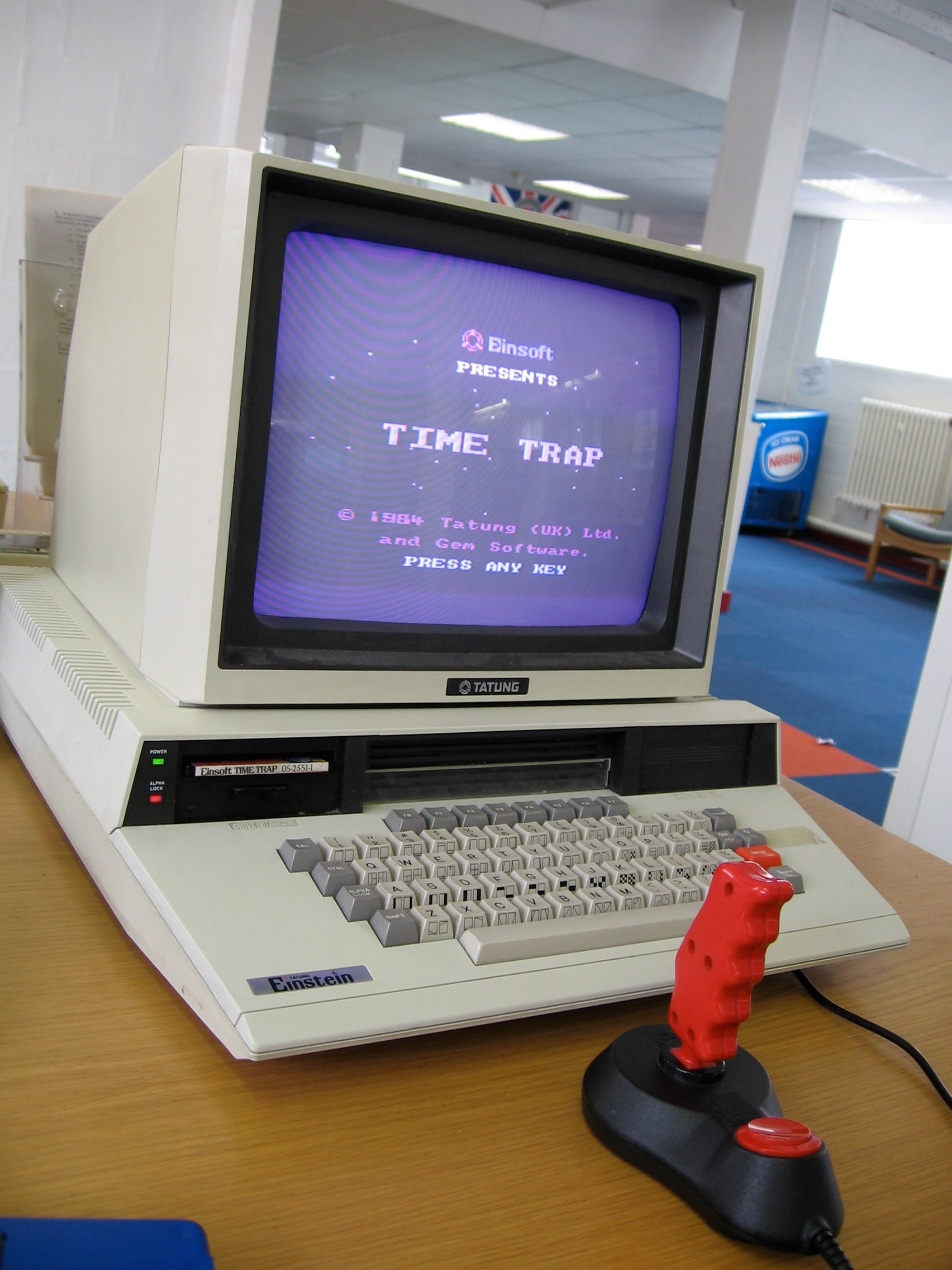 Tatung Einstein photographed at the National Museum of Computing, Bletchley, UK.